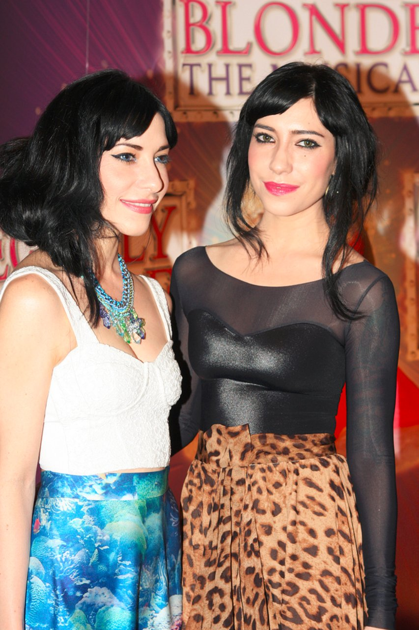 Jess and Lisa Origliasso (known as the Veronicas) attending the gala opening of Legally Blond The Musical, in Sydney on 4 October 2012.